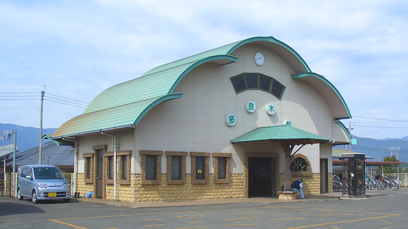 Kumagawa Railroad Taragi Station, 14 March 2007